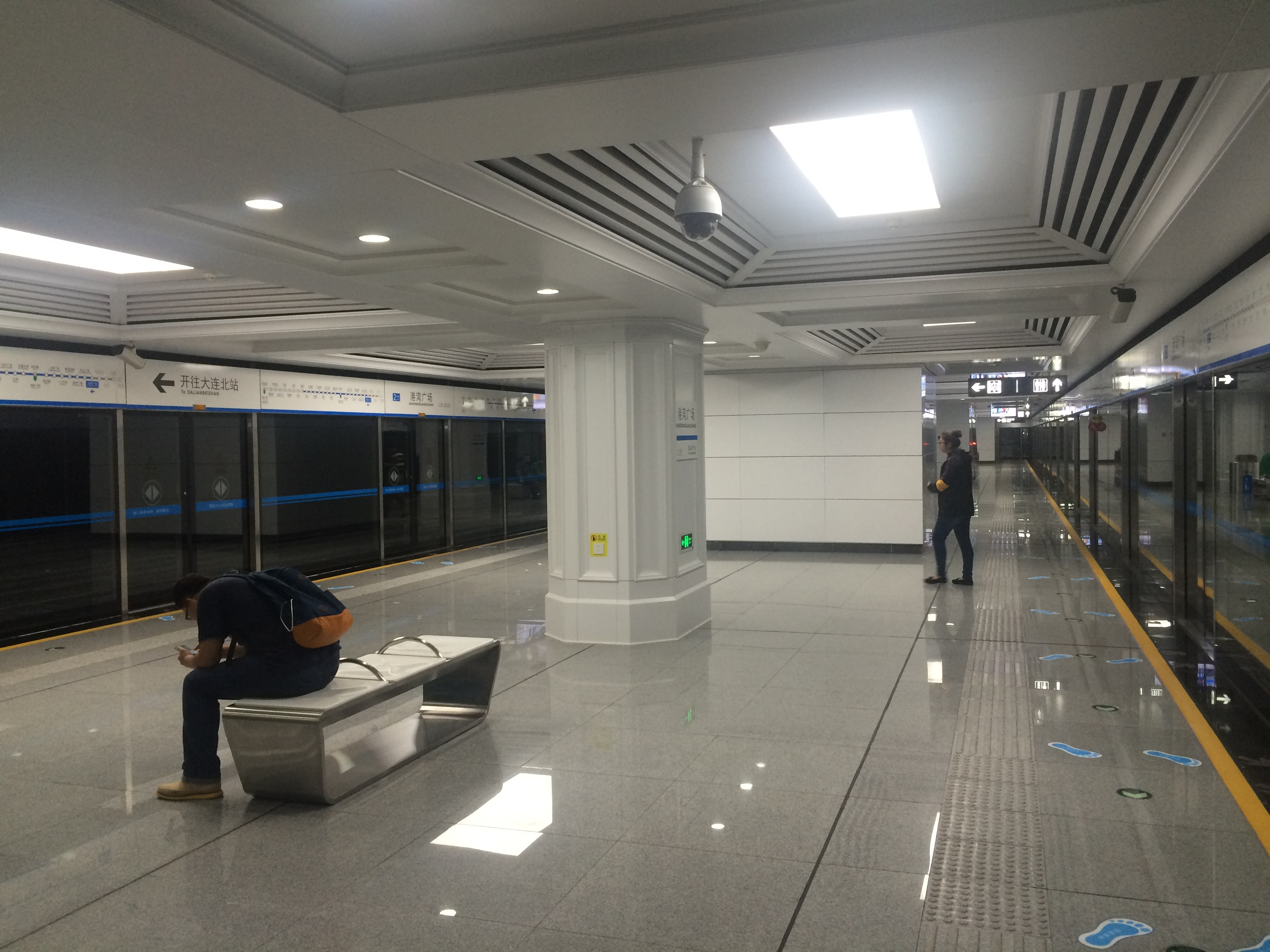 Dalian Metro Line 2 Platform, Dalian, China